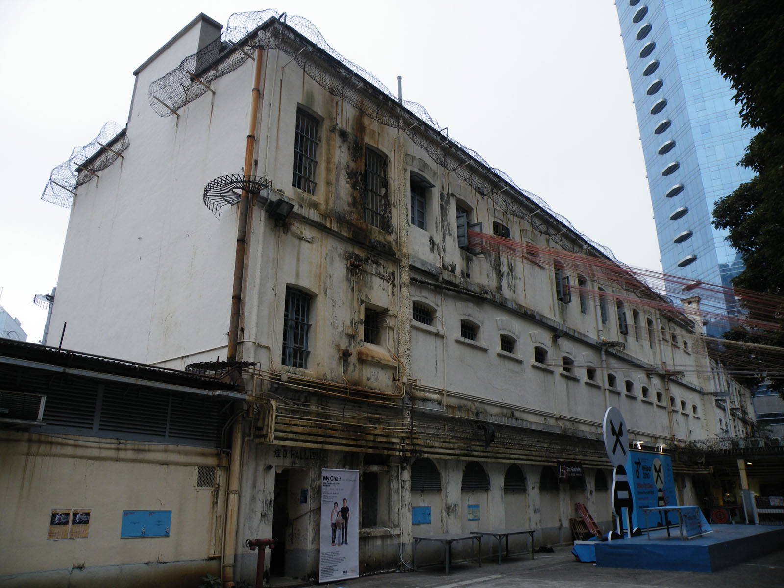 Victoria Prison hall C&D